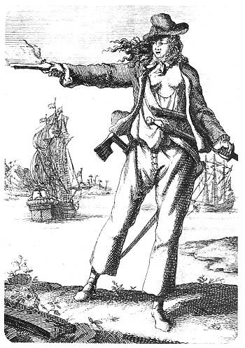 The pirate Anne Bonney (1697-1720)